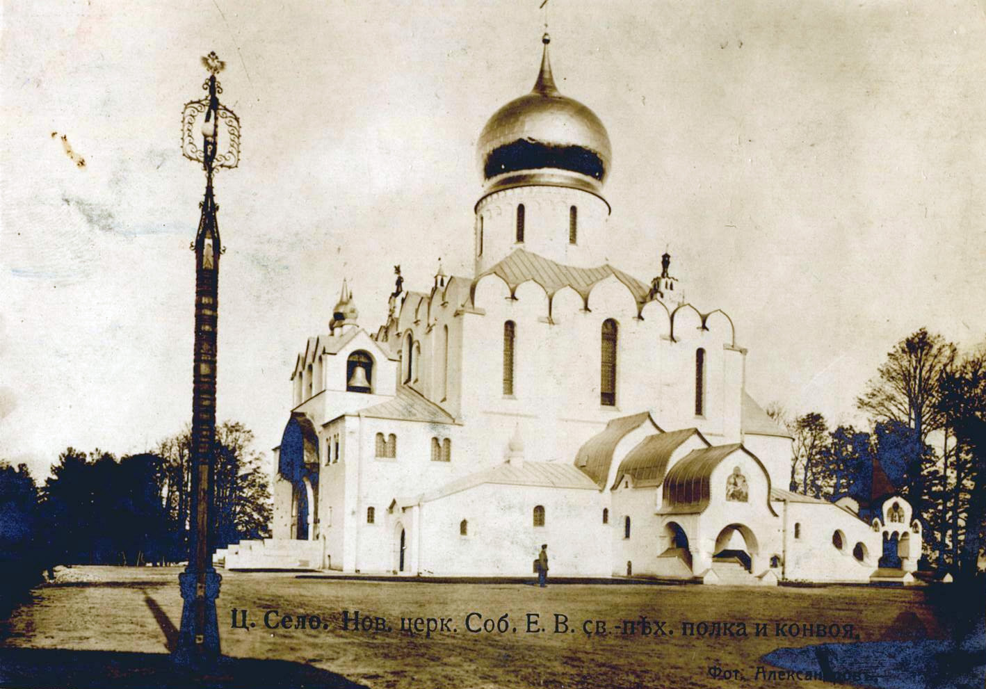 Tsarskoye Selo (Russia), Feodorovsky Cathedral.